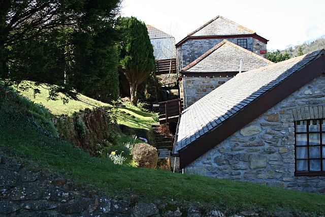 Hick's Mill. A 17th Century water mill, now converted to holiday accommodation.